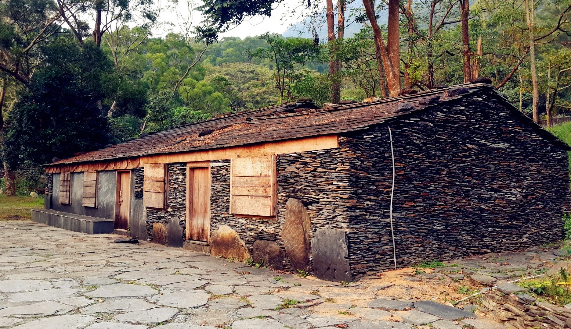 台灣原住民傳統建築大都因應自然環境的需求就地取材，以小石片竹圍牆基，大木為樑，鑿石為瓦。由於南臺灣山區到處都有裸露的灰黑色板岩和頁岩，取用十分便利，排灣族的家屋便以當地盛產的岩石為主要建材，即俗稱的石板屋，成為排灣族獨特的文化表徵之一。 located in Sandimen Township, Pingtung County, Taiwan.